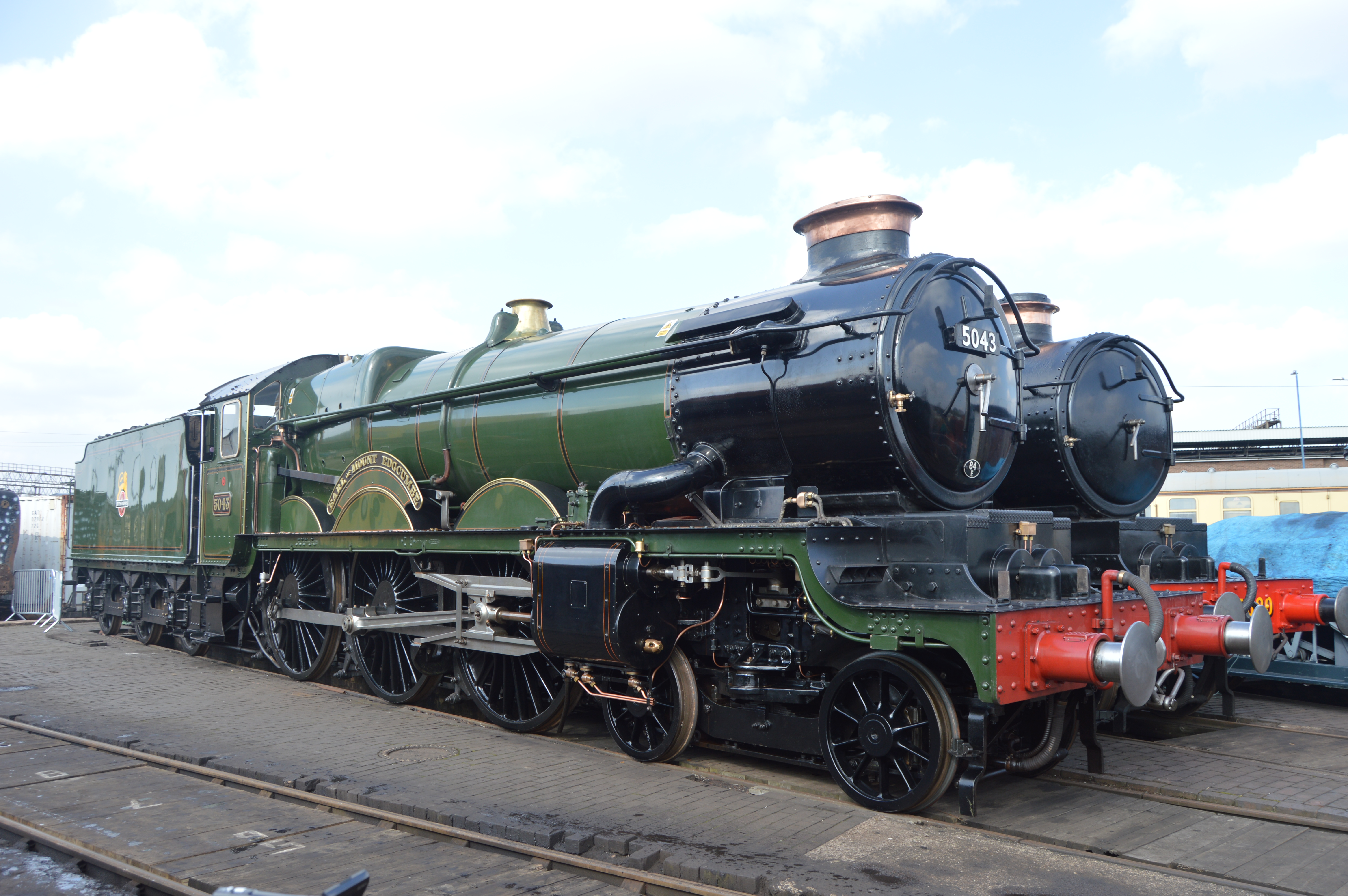 5043 Earl of Mount Edgcumbe (Barbury Castle) parked up on a turntable road at Tyseley LW next to sister 5080 Defiant.